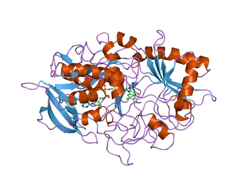 Cartoon representation of the molecular structure of protein registered with 3cox code.